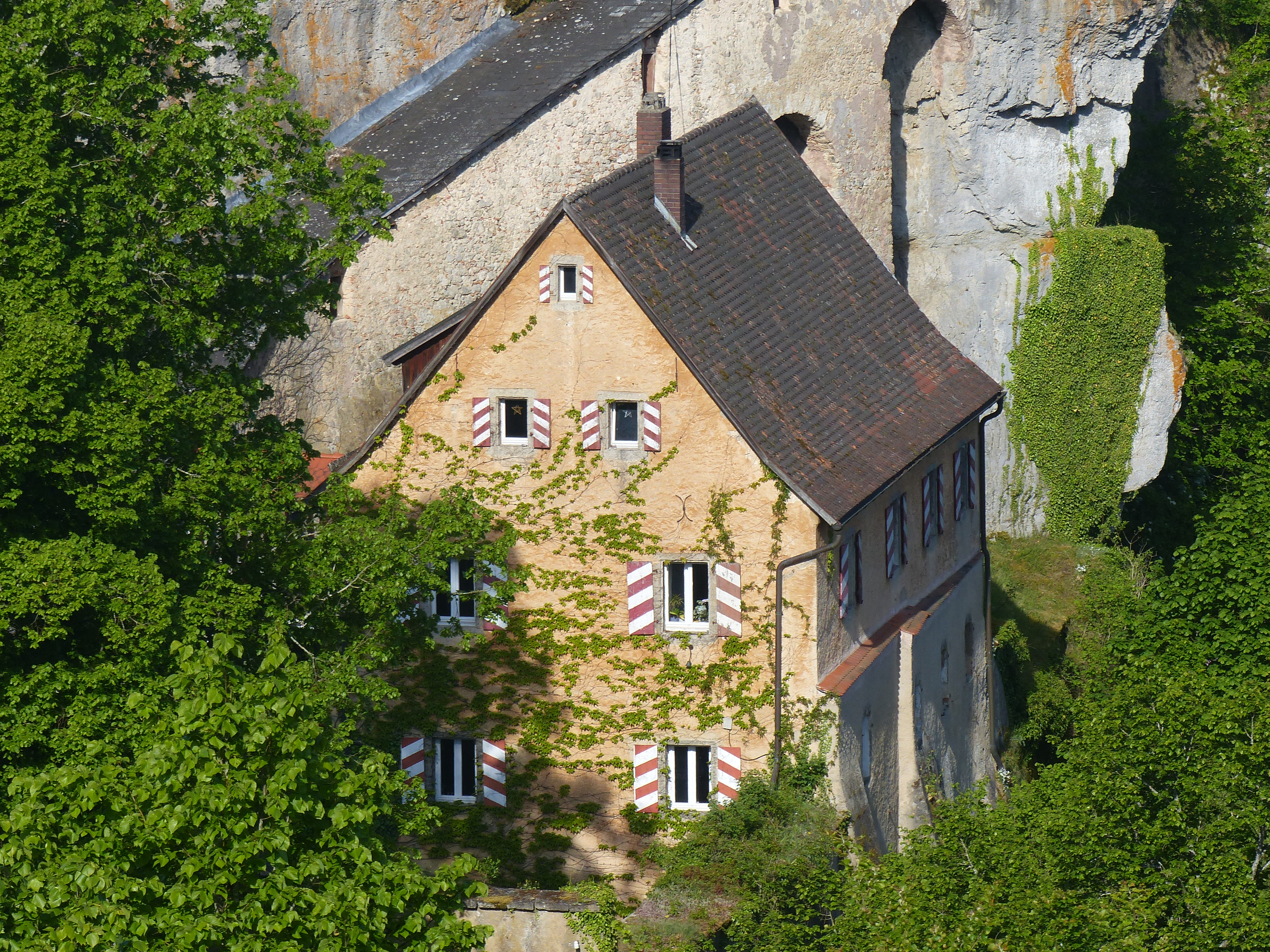 The bailiff's house of the Pottenstein Castle, the former administrative seat of the Amt Pottenstein.